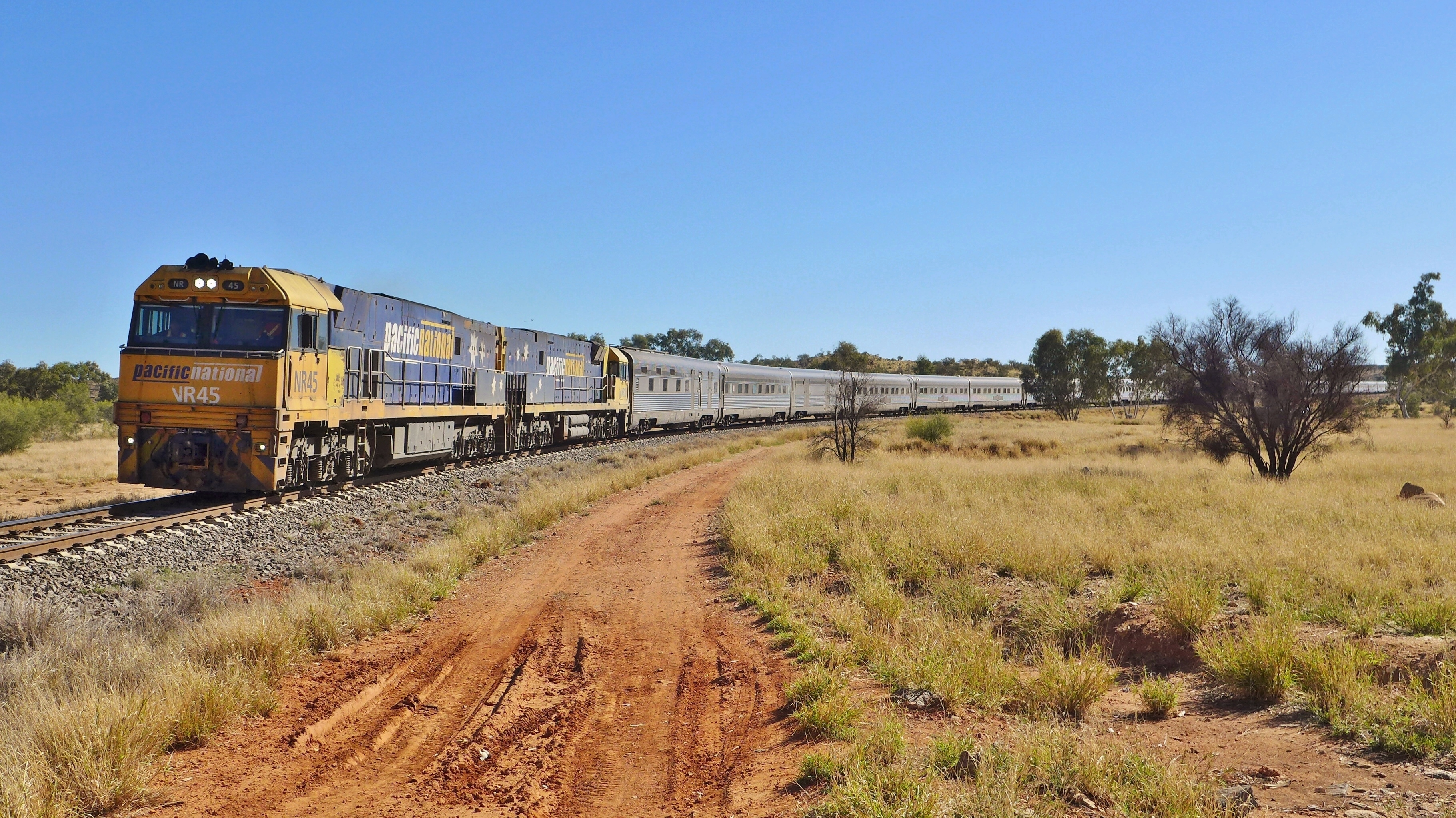 NR45 and NR10 swing around the final bend before arriving at Alice Springs railway station with the Adelaide-bound four day Ghan from Darwin. Bahnfrend thanks the friendly Alice Springs-based staff of The Ghan for recommending that he be in place to take this picture at least half an hour before the scheduled arrival time; the train turned out to be running about 15 minutes ahead of schedule.